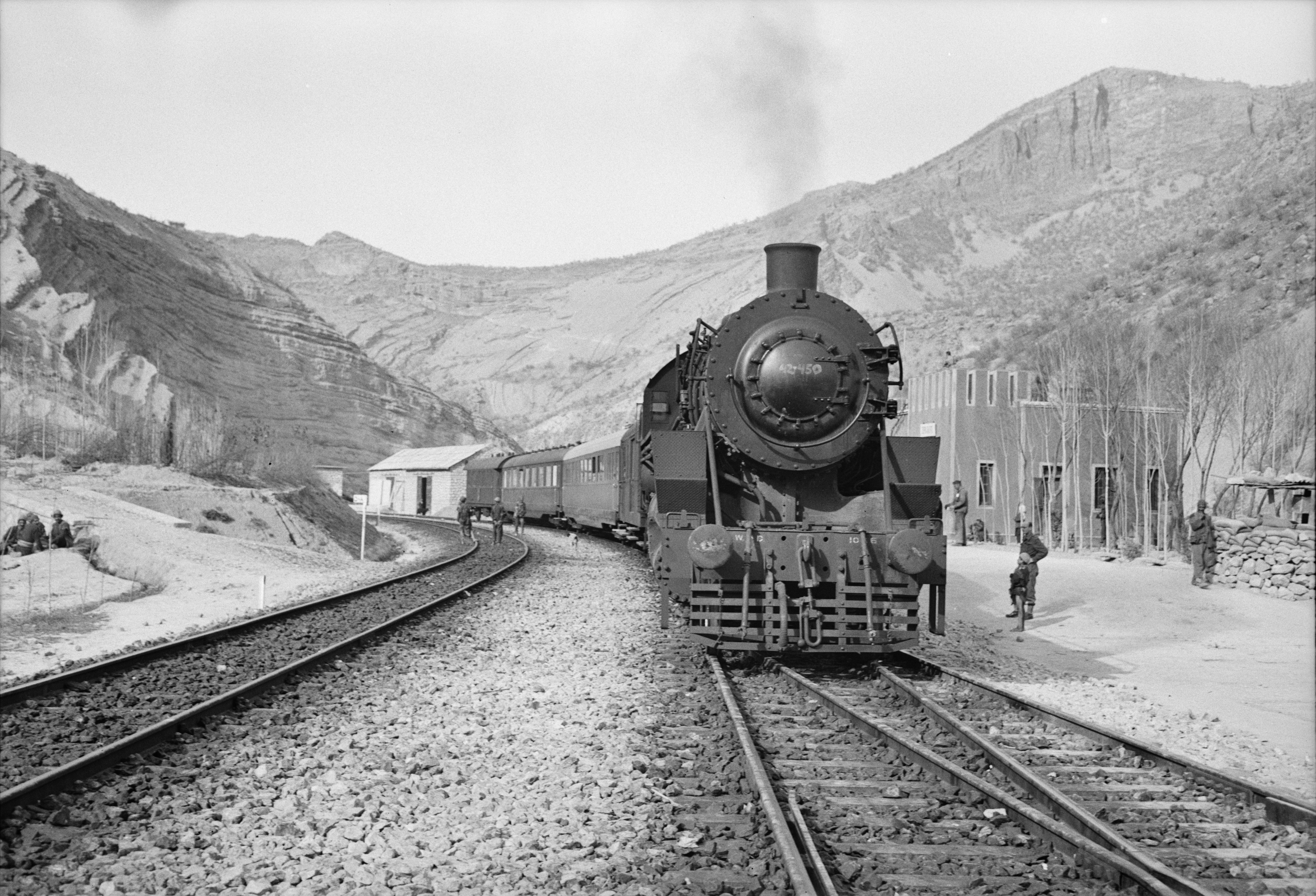 Somewhere in Iran. An American engine transporting allied aid for Russia, stopping at a station rimmed by mountains.